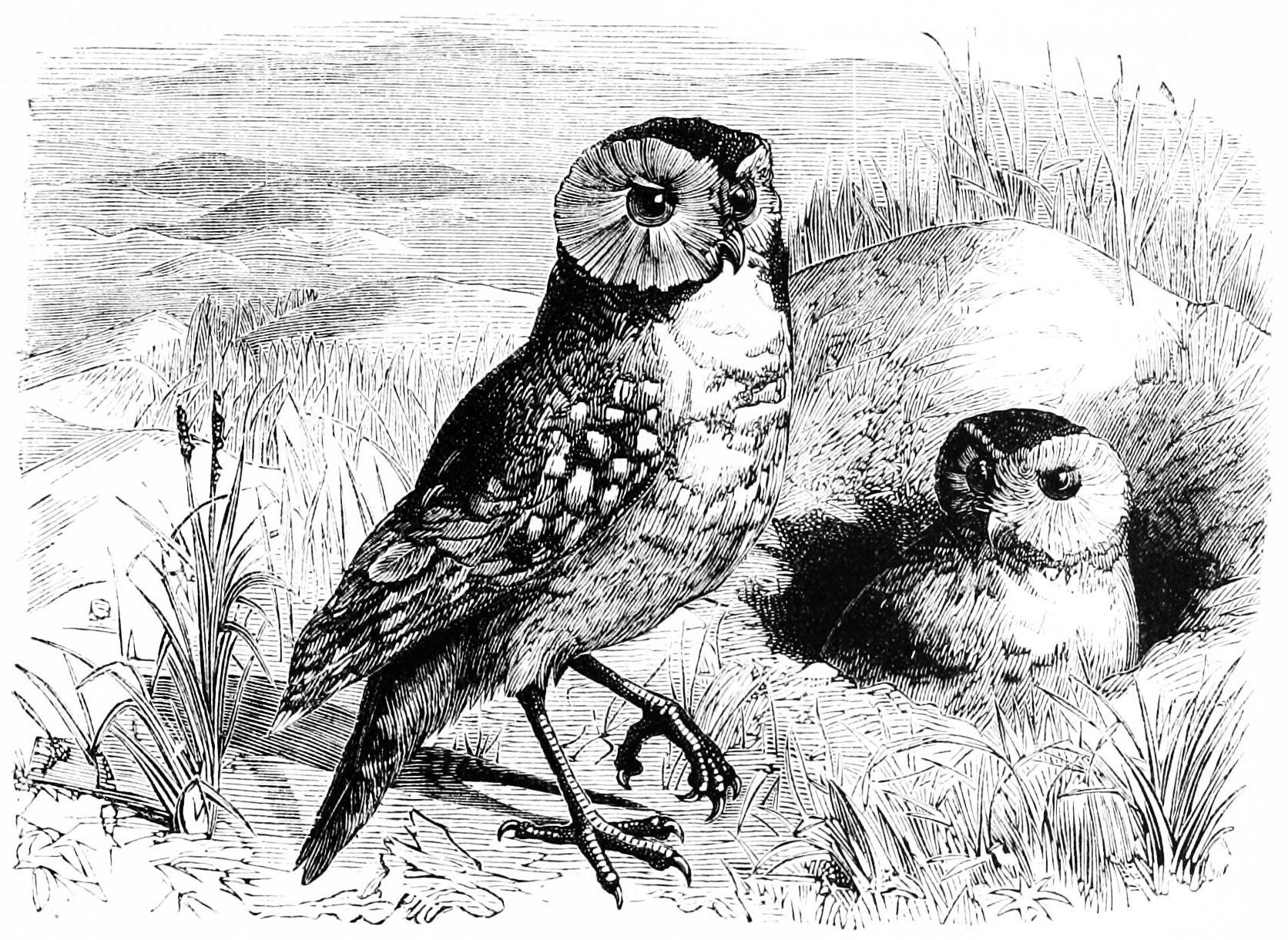 The American burrowing owl